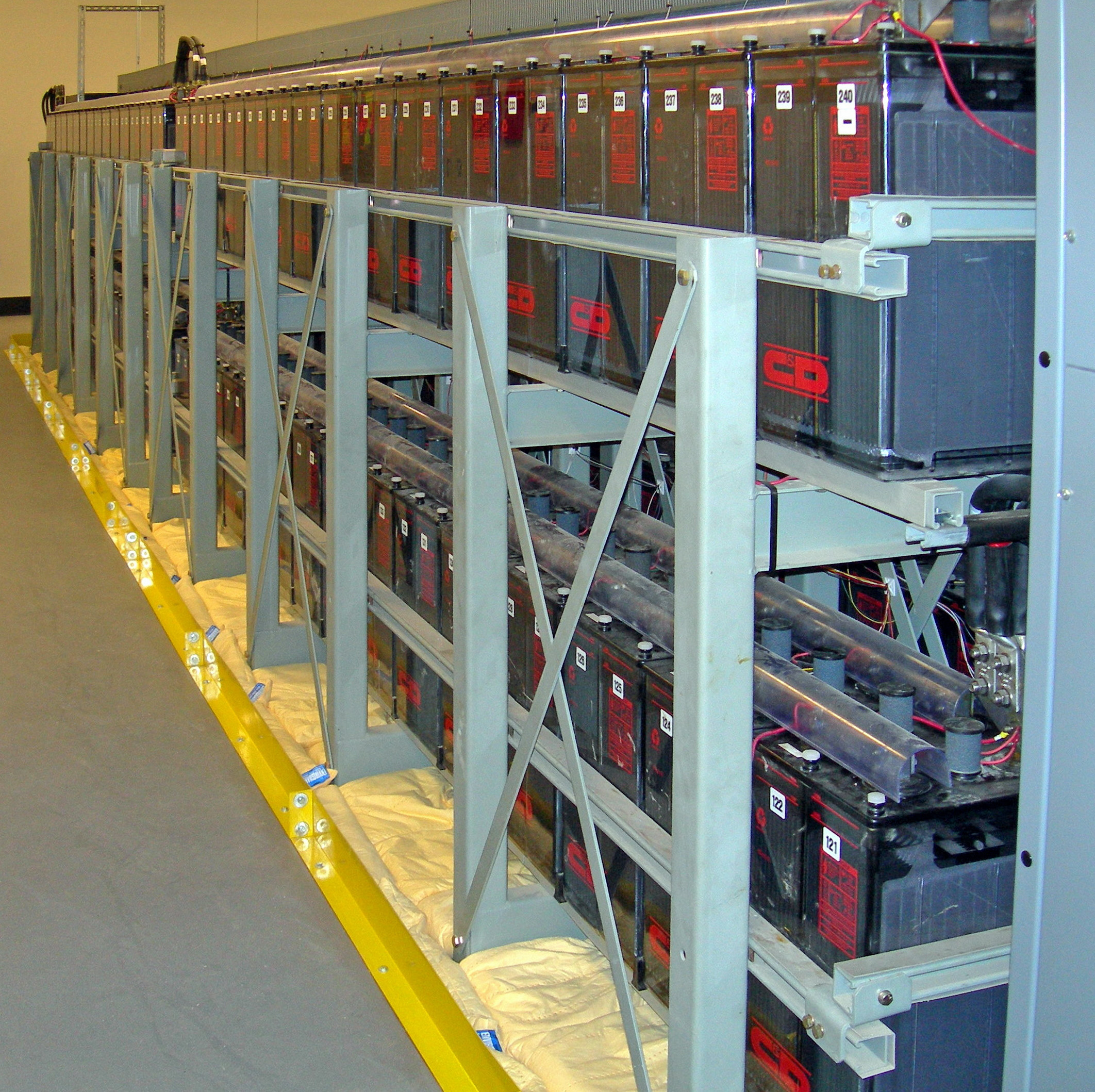 A bank of batteries in a large datacenter, used to provide emergency power until diesel generators can be started.